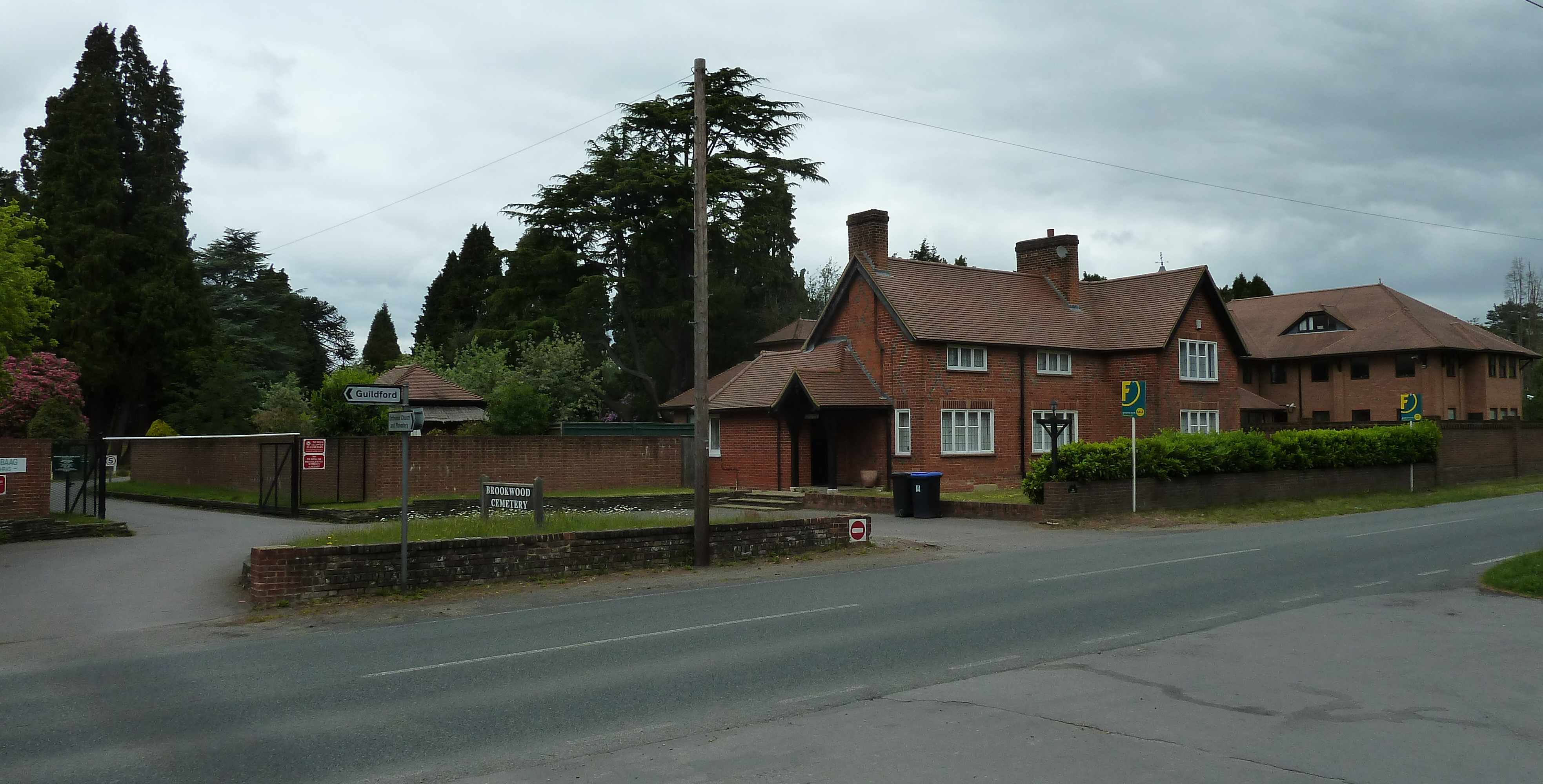 Buildings at the junction of Cemetery Pales and the route of the former Necropolis Railway, Brookwood Cemetery, Surrey